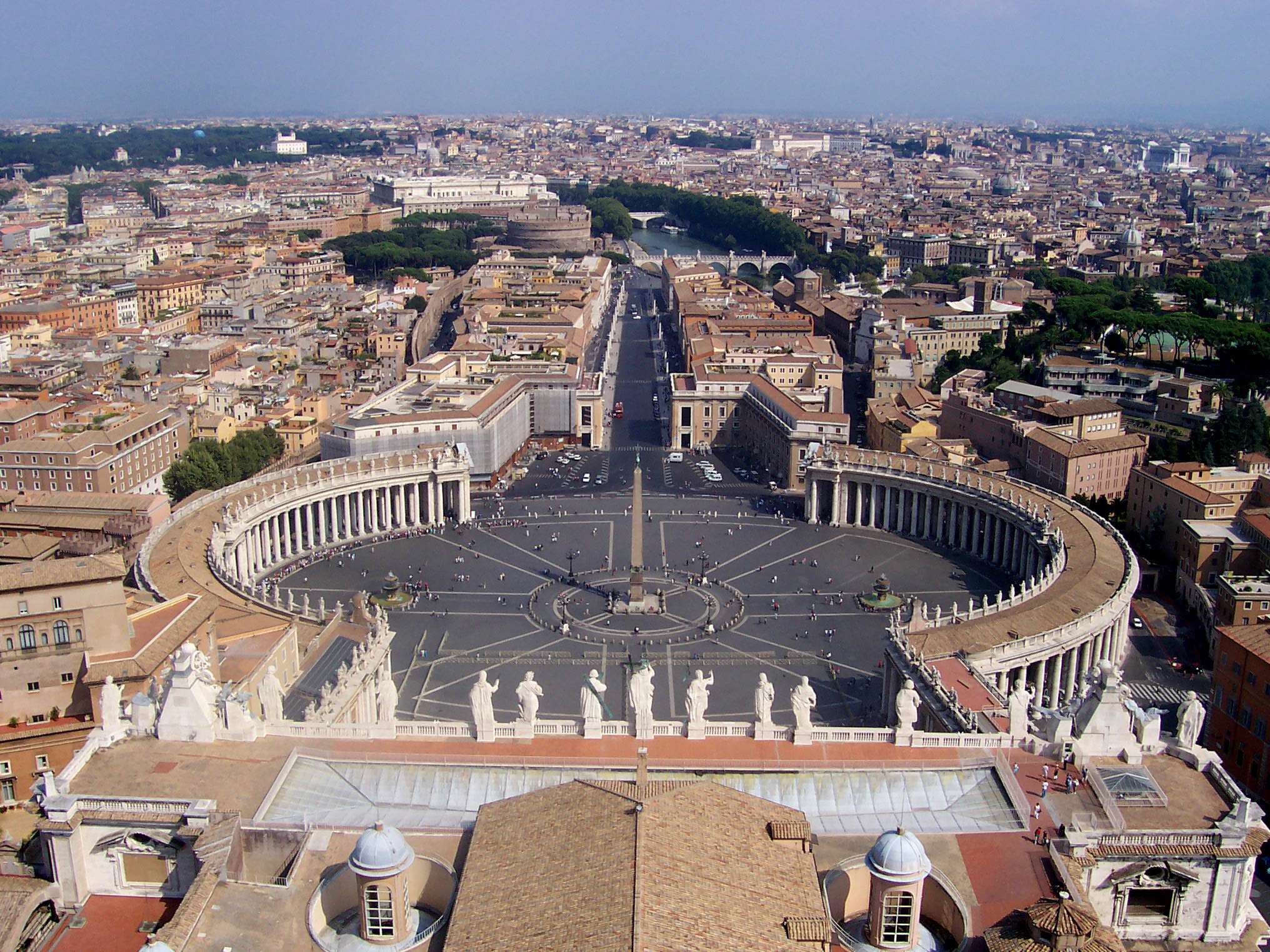 vatican